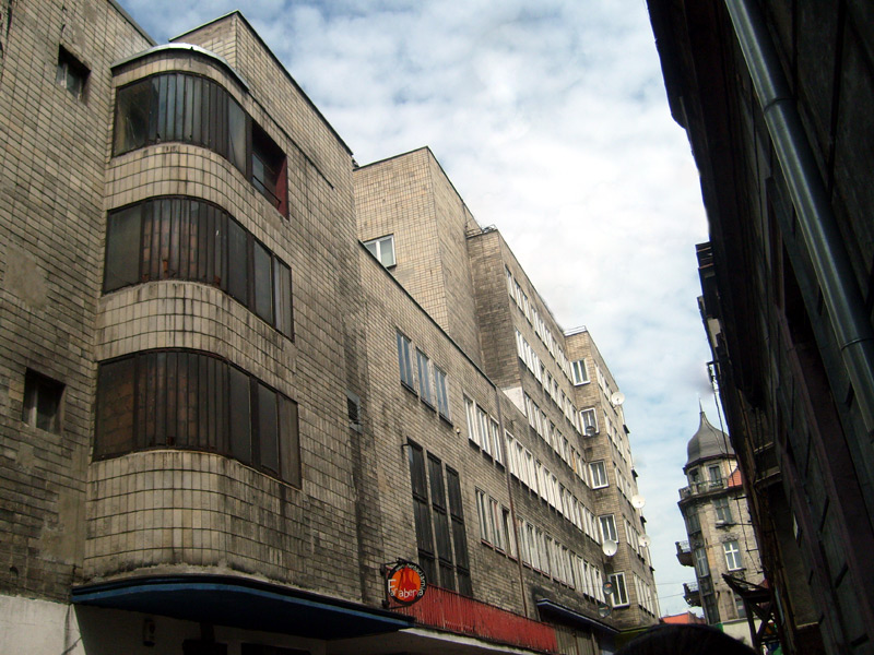 Cinema Gloria